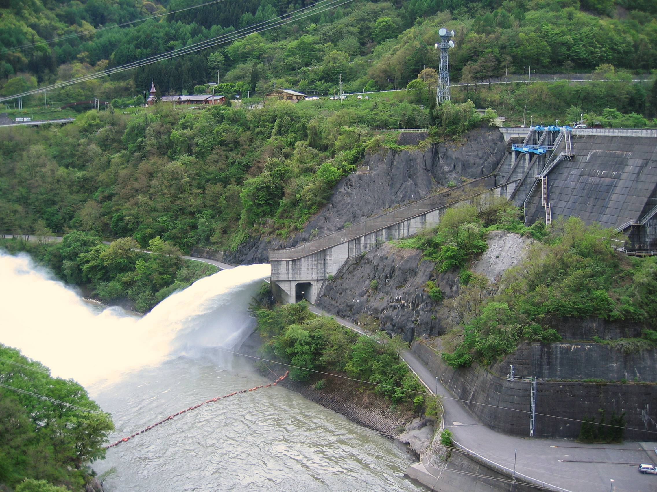 Midono Dam (水殿ダム) is a dam in Matsumoto city, Nagano prefecture, Japan.